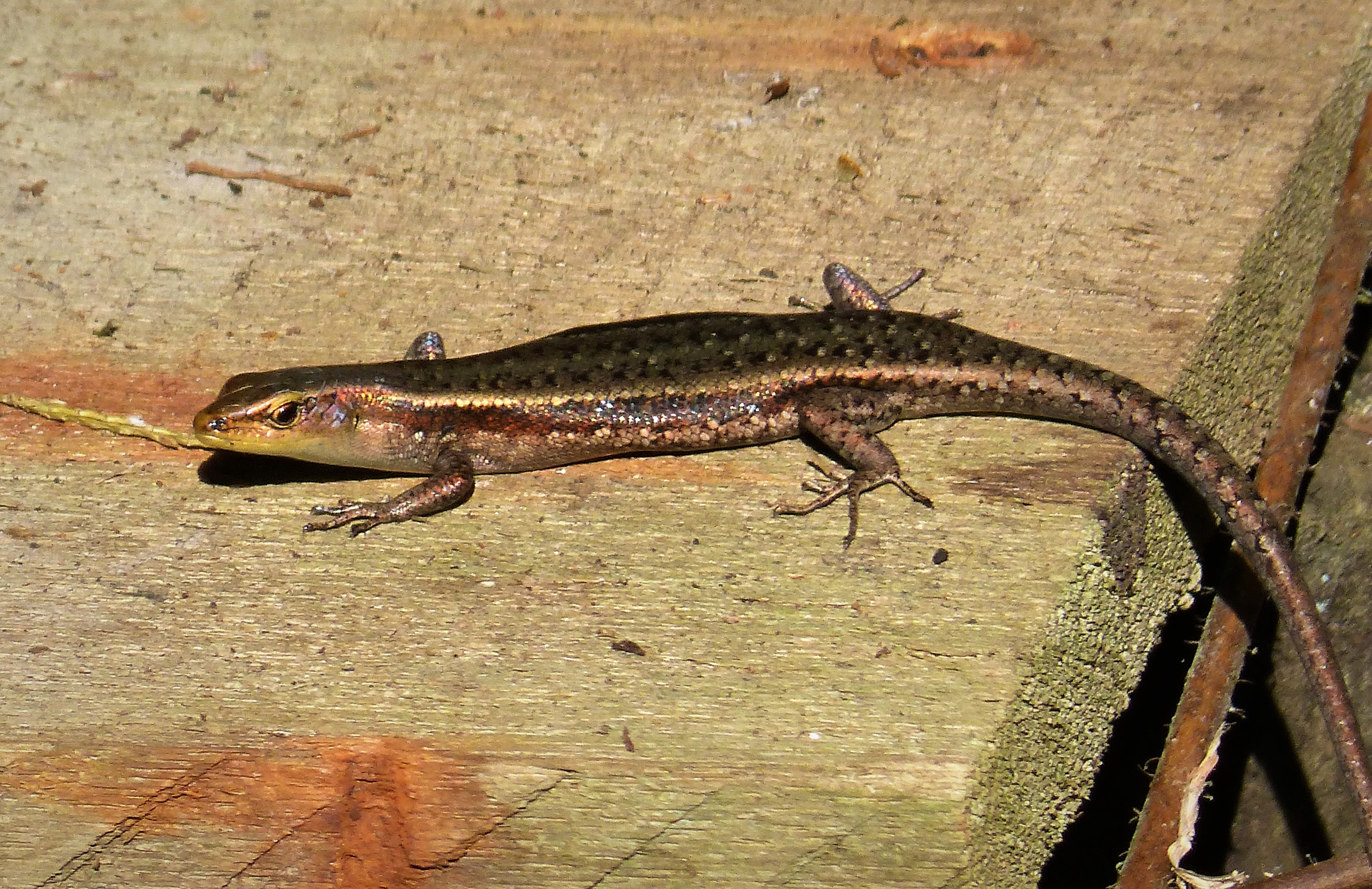 Variata NP, Port Moresby, PNG